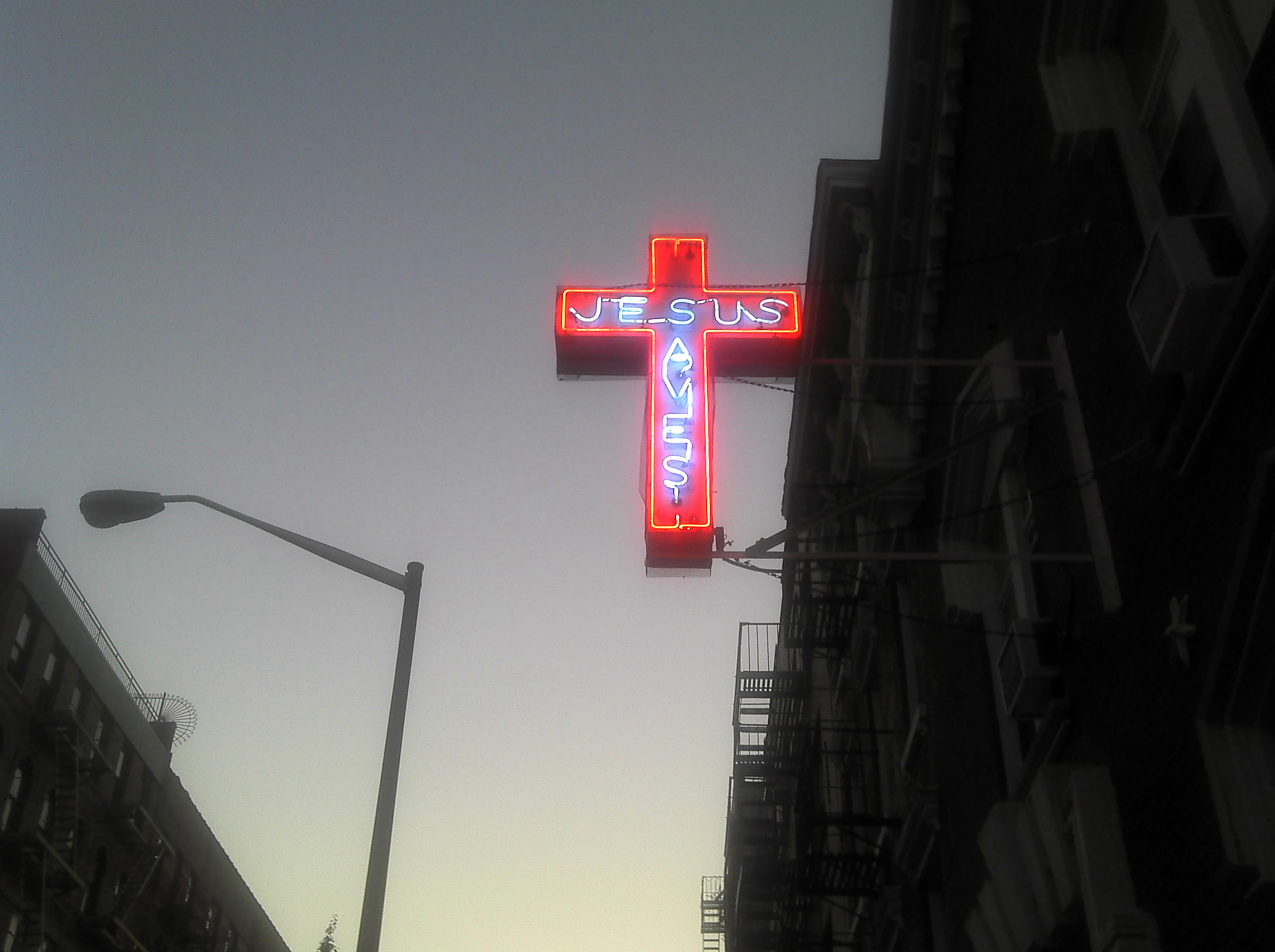 A "Jesus Saves" neon cross sign on The Father's Heart Ministry Center offices, 545 E. 11th St. near Ave. B in Alphabet City, Manhattan in New York City